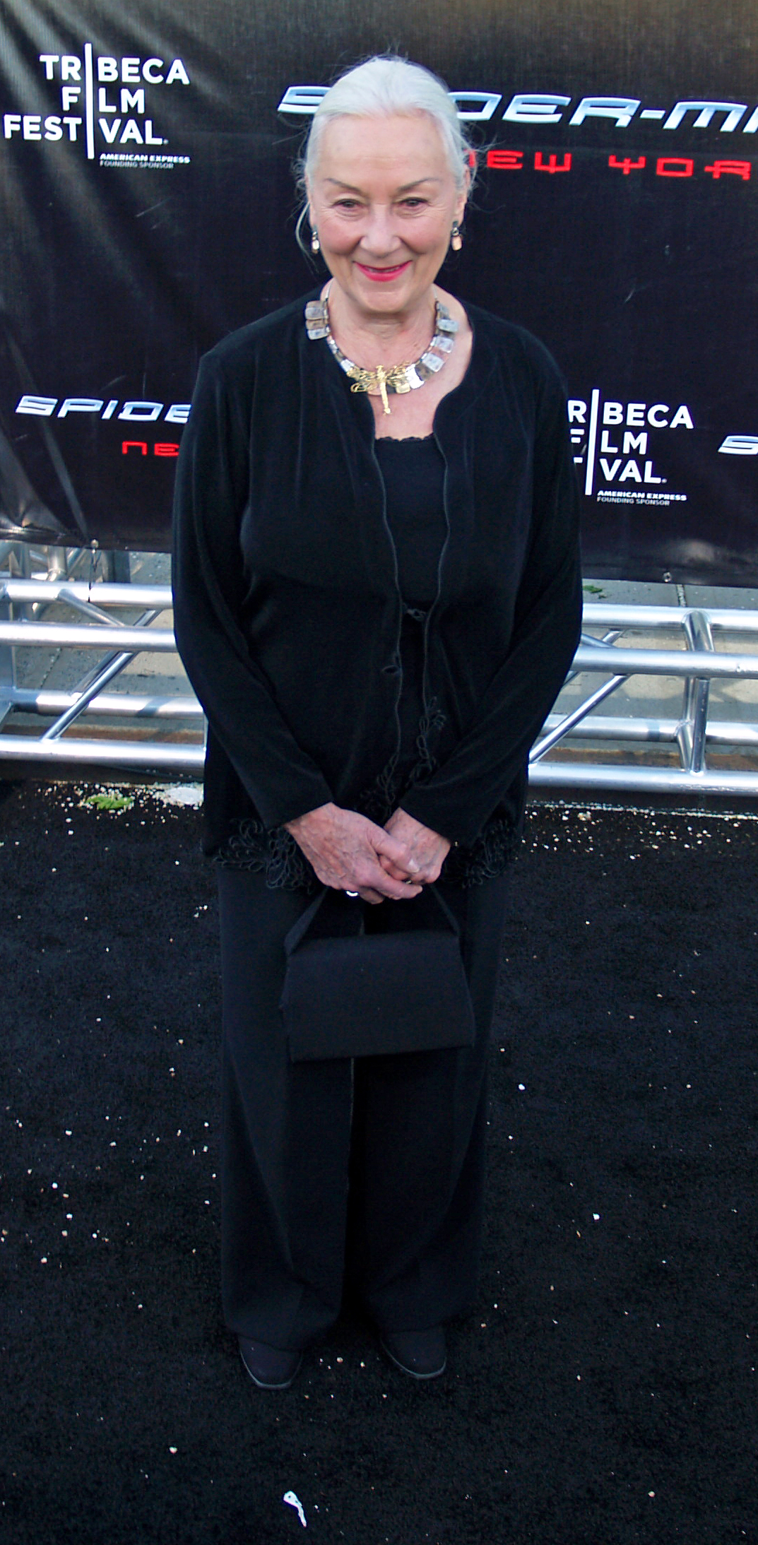 Rosemary Harris